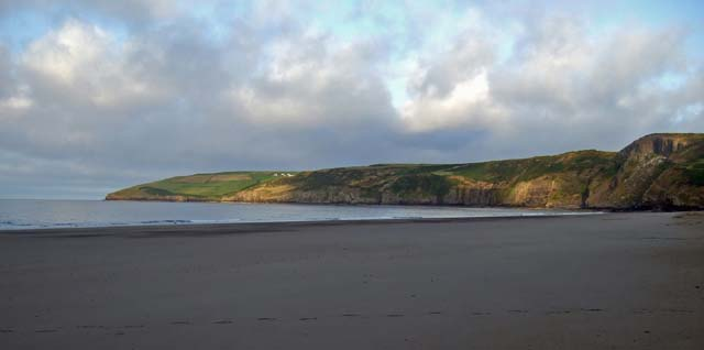 Early morning at Porth Ceiriad